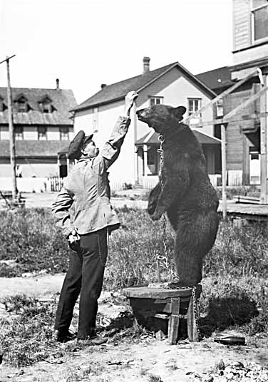 Henry Avison feeding his pet bear in an unknown location. Stanley Park's first zookeeper.